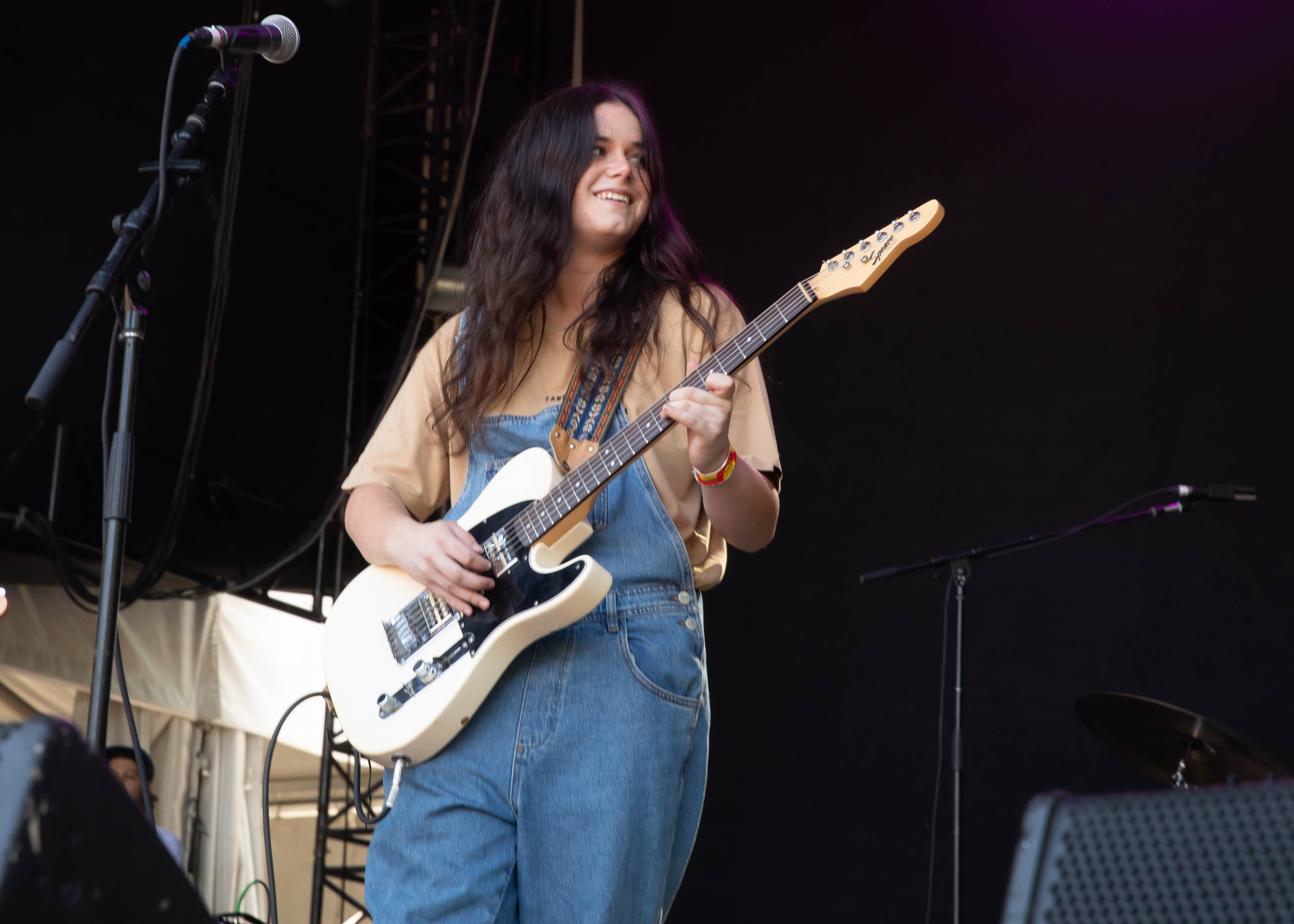 Ruby Fields